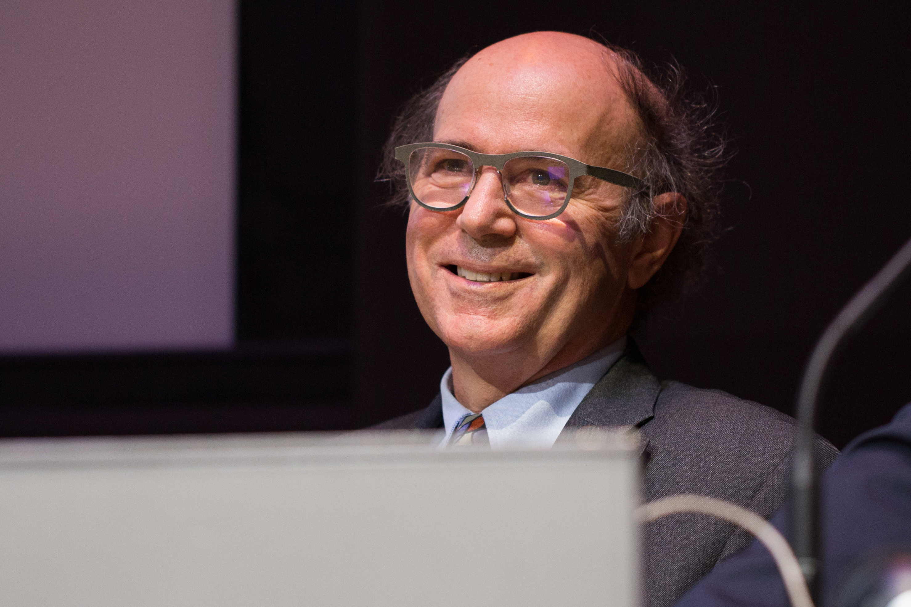 L’élégance de l’art et l’éloquence des équations par Frank Wilczek, Prix Nobel de Physique, MIT, Cambridge (Mass)